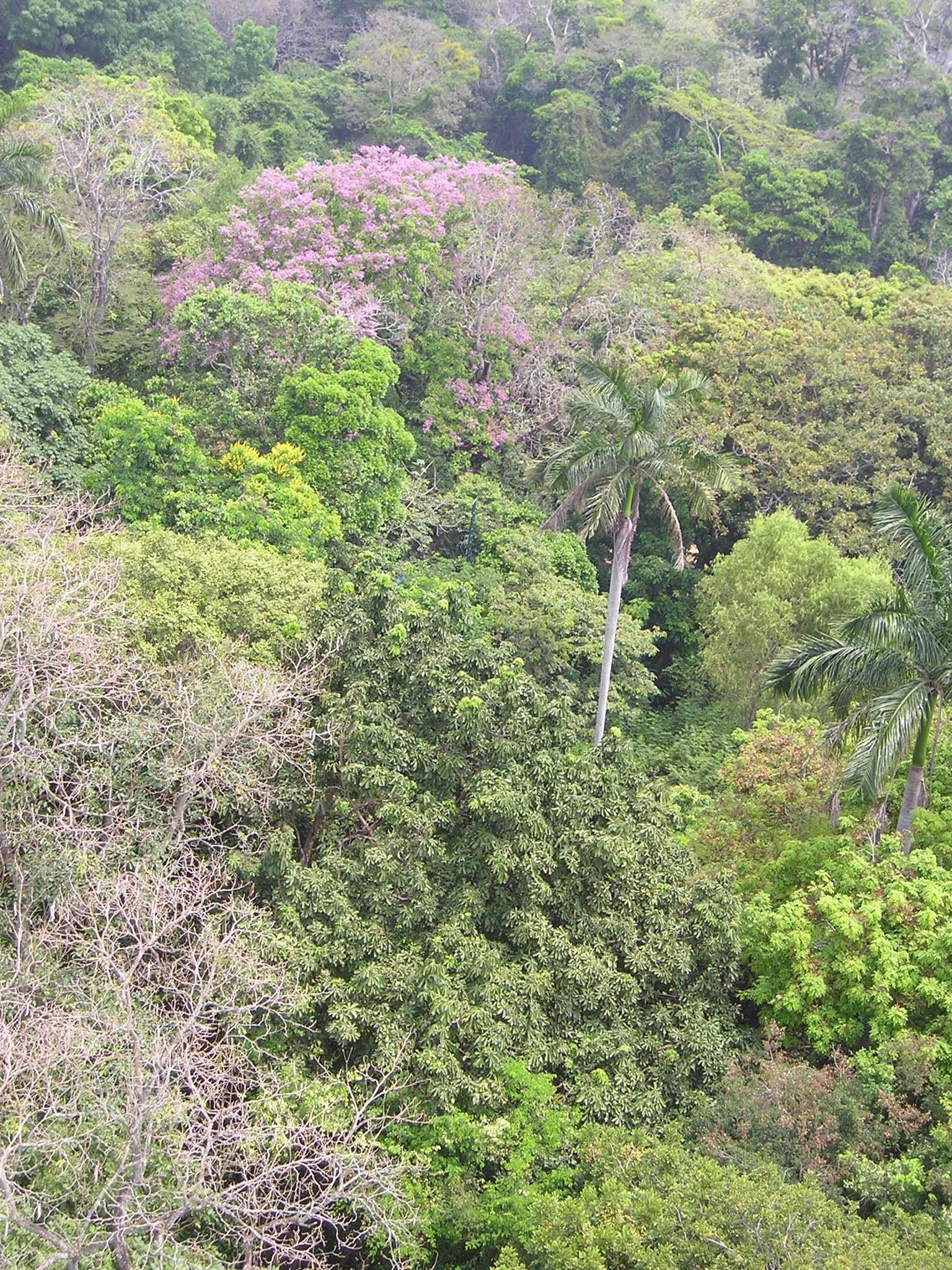 A small area of Mexican selva (jungle) in park "Parque - Museo de La Venta" in Villahermosa, Tabasco, Mexico. The photo was taken from the "Mirador de las Águilas" (Eagle Tower) in the Parque Tomás Garrido Canabal.